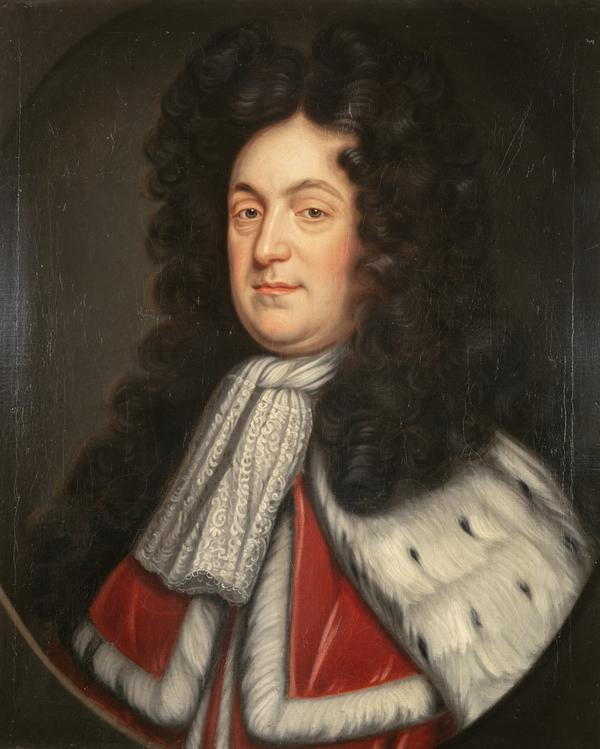 Portrait of John Hamilton, 2nd Lord Belhaven and Stenton (1656-1708)